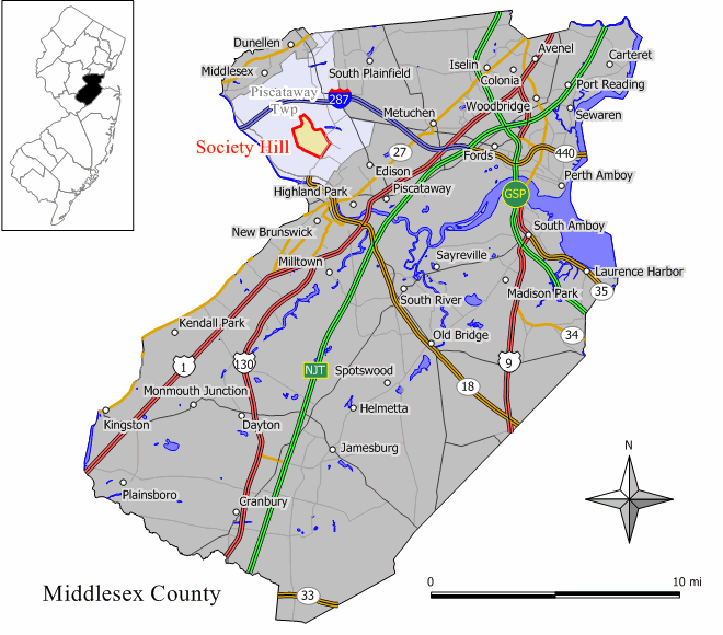 Description: Map of Society Hill CDP in Middlesex County, New Jersey Source: Jim Irwin Original work by Jim Irwin, December 2005.